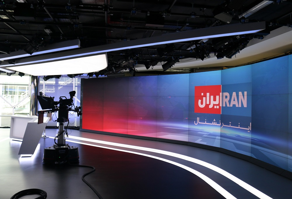 IRAN INTERNATIONAL - Persian-language TV in London 2019